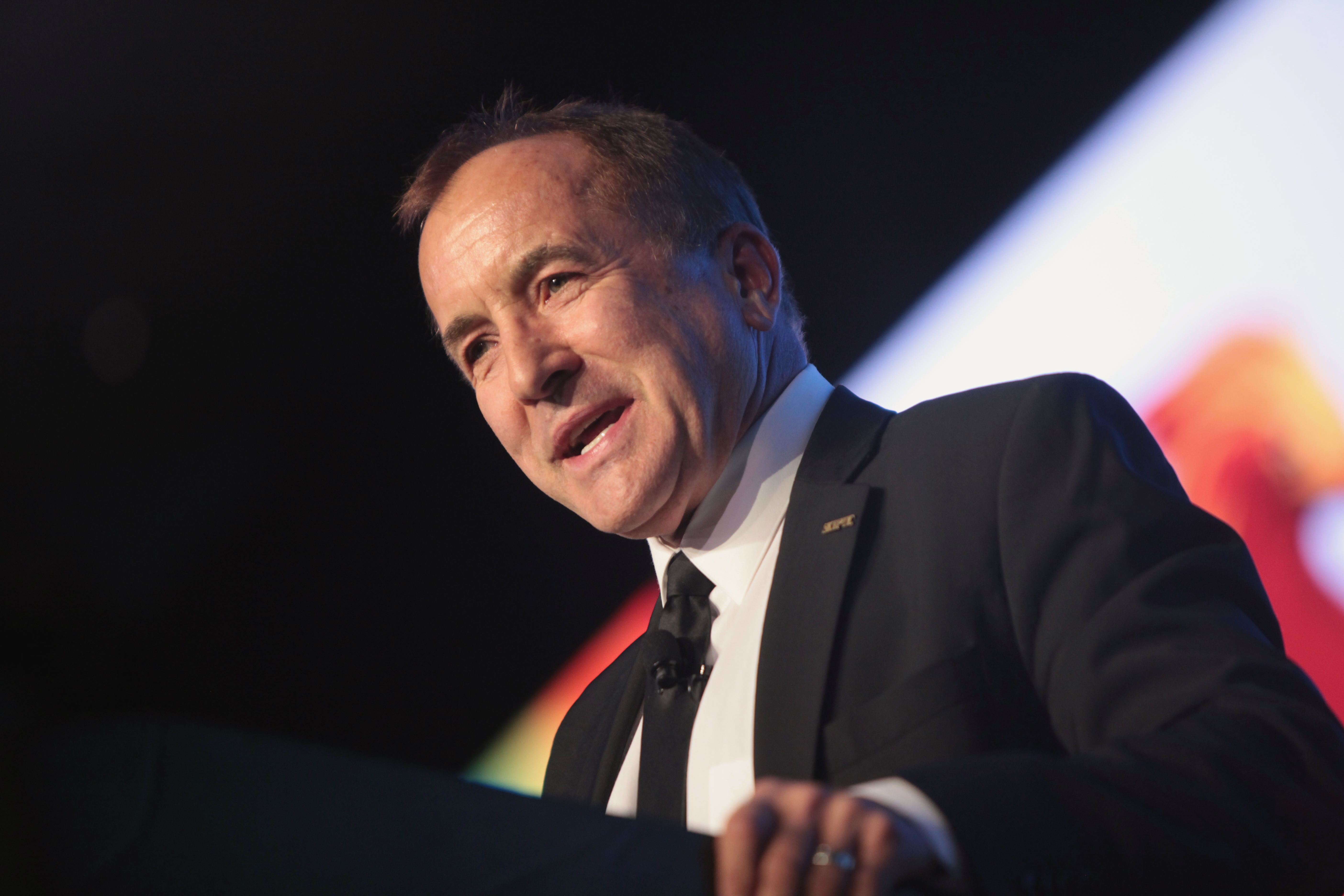 Michael Shermer speaking at an event in Las Vegas, Nevada.